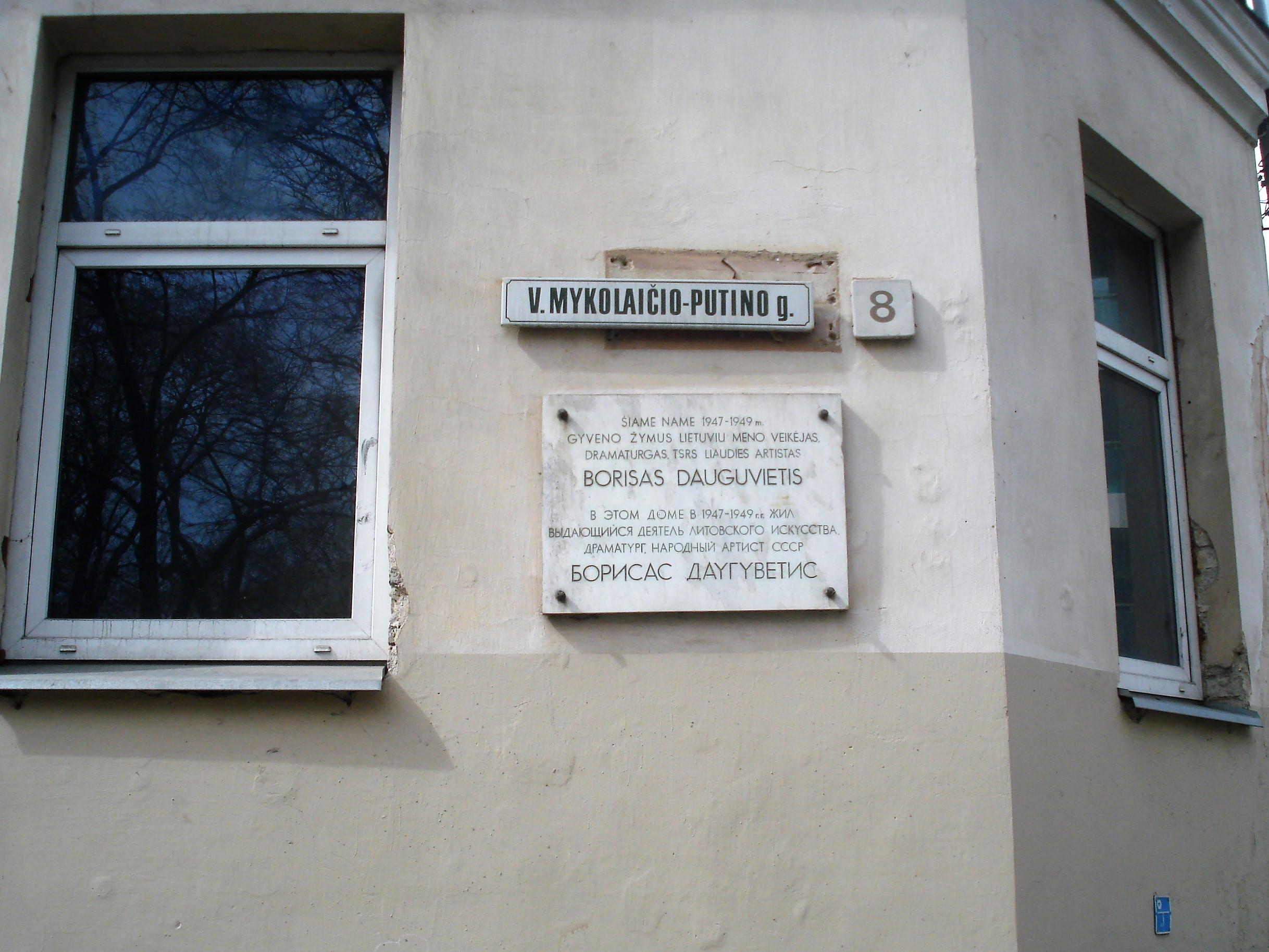 Memorial tablet in Vilnius: the prominent Lithuanian playwriter, actor, director Borisas Dauguvietis (1885–1949) lived in this house in 1947–1949. V. Mykolaičio-Putino g. 8